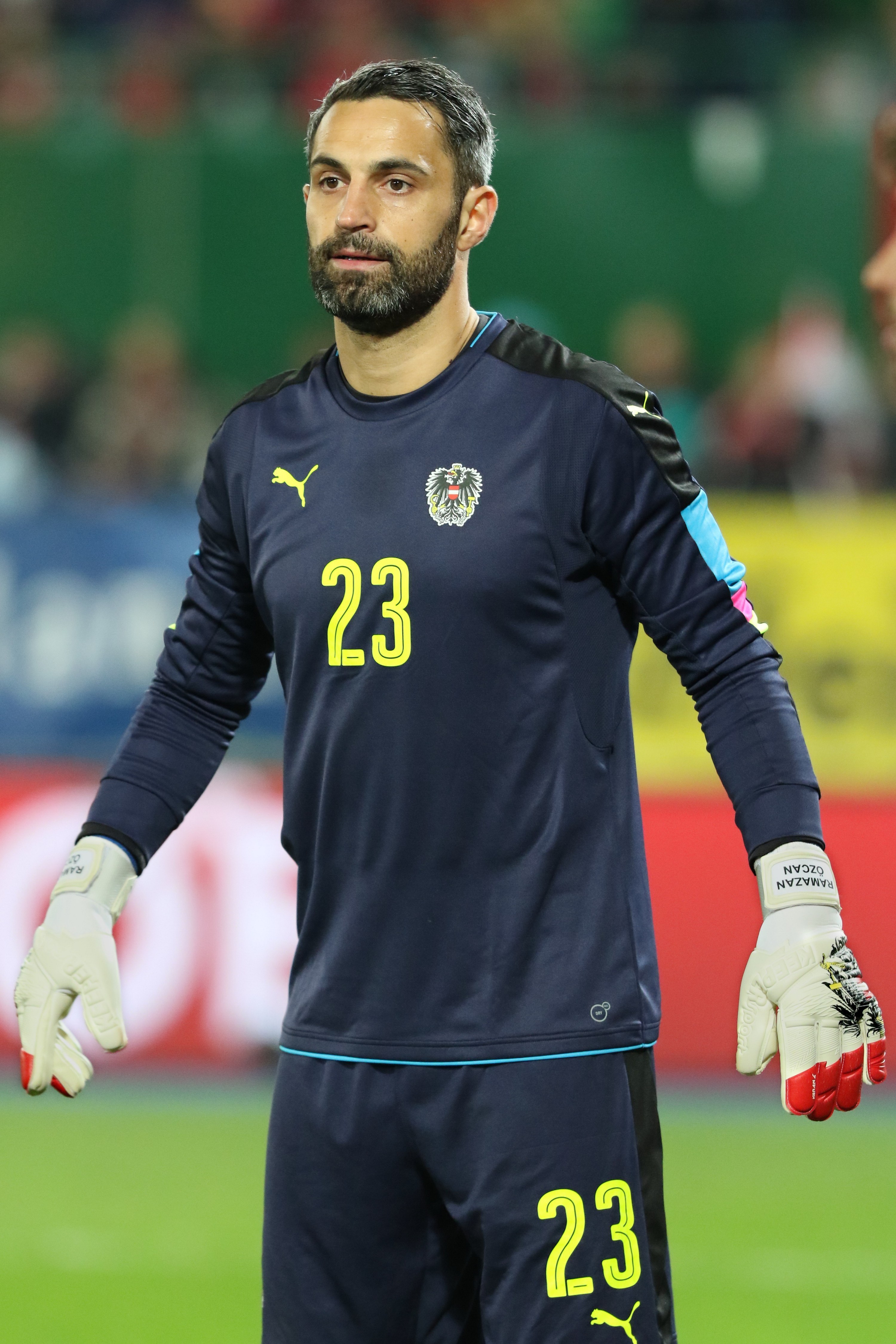 Friendly match – Austria (red shirts) vs. Turkey (blue shirts) 1–2 (1–1) on 2016-03-29 in Ernst-Happel-Stadion, Vienna – The photo shows the Austrian goalkeeper Ramazan Özcan (GK, FC Ingolstadt 04).